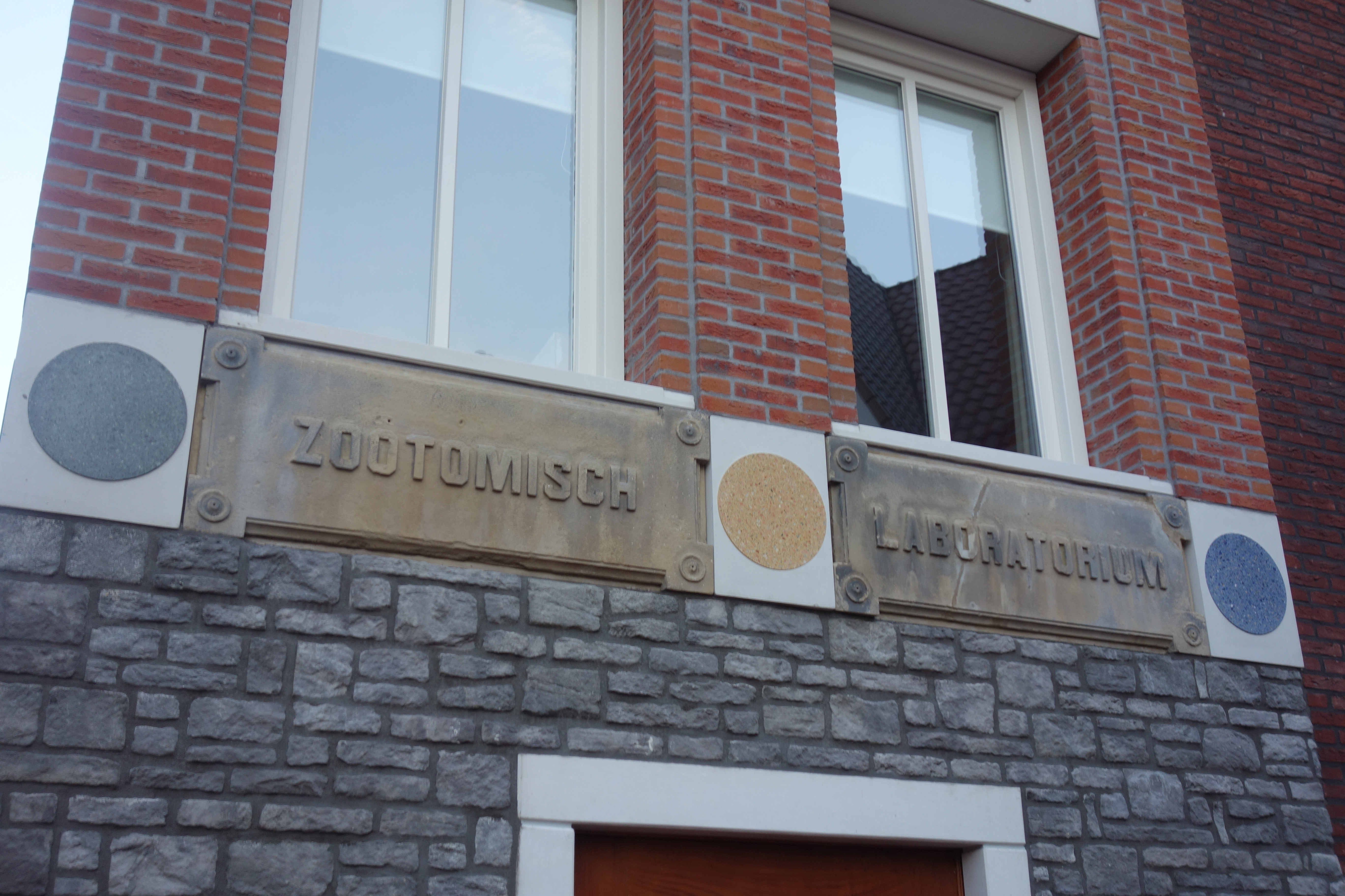 Old gable stones Zootomisch Laboratorium of Leiden University in new appartment building at Sterrewachtlaan, Leiden